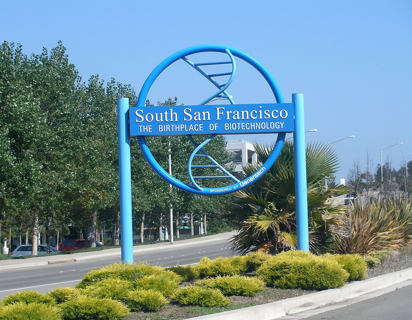 Genentech has sponsored these DNA-themed gateway signs throughout South San Francisco, which declare the city to be the "Birthplace of Biotechnology."